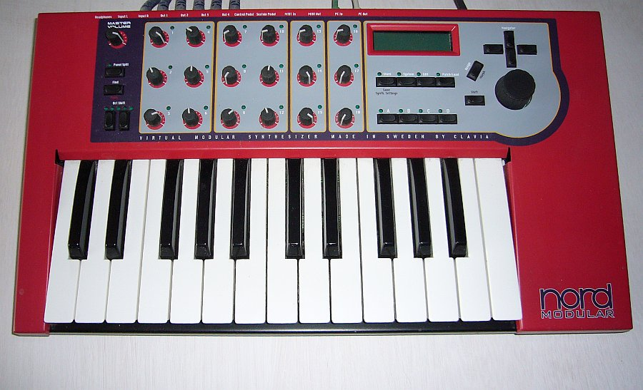 Clavia Nord Modular synthesizer (G1, keyboard version)